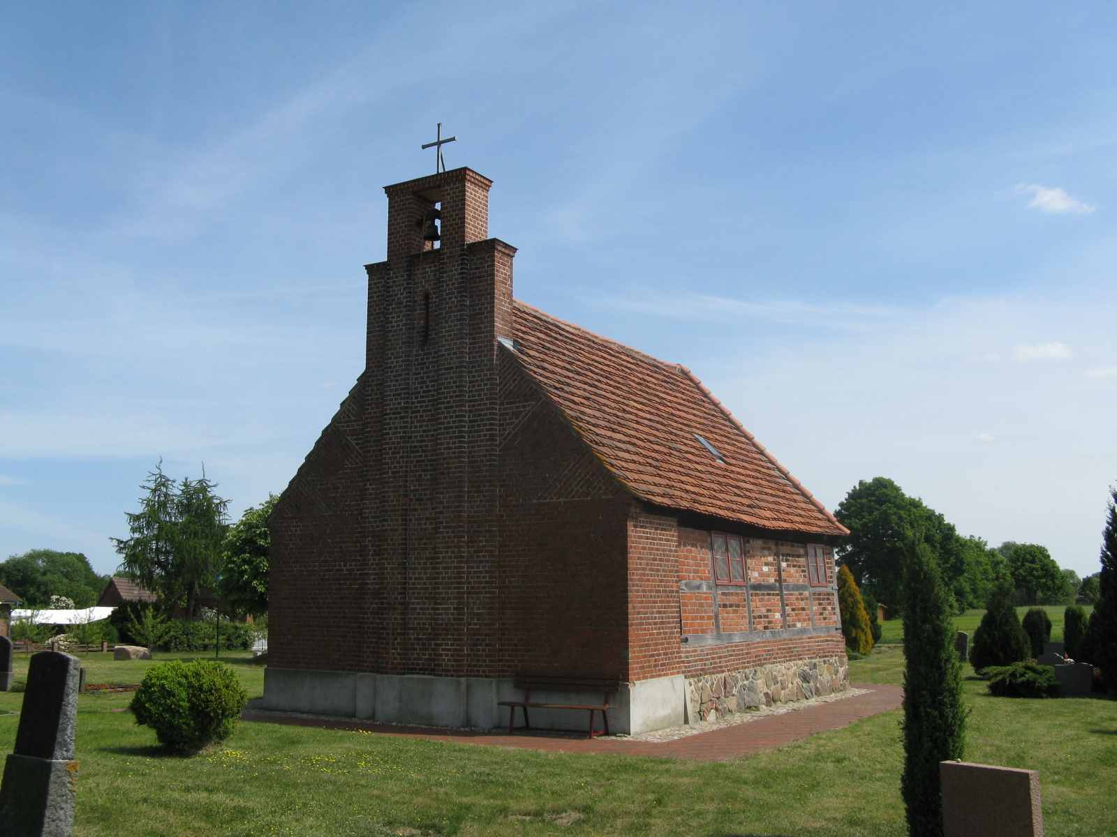 Church in Rensdorf, Mecklenburg-Vorpommern, Germany